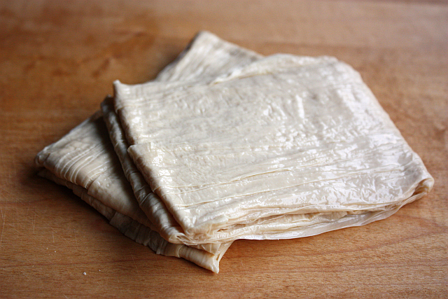 Tofu skin 中文（中国大陆）: 腐皮／腐竹 中文（台灣）: 豆腐皮／腐竹 粵語: 腐竹／腐皮／豆腐皮